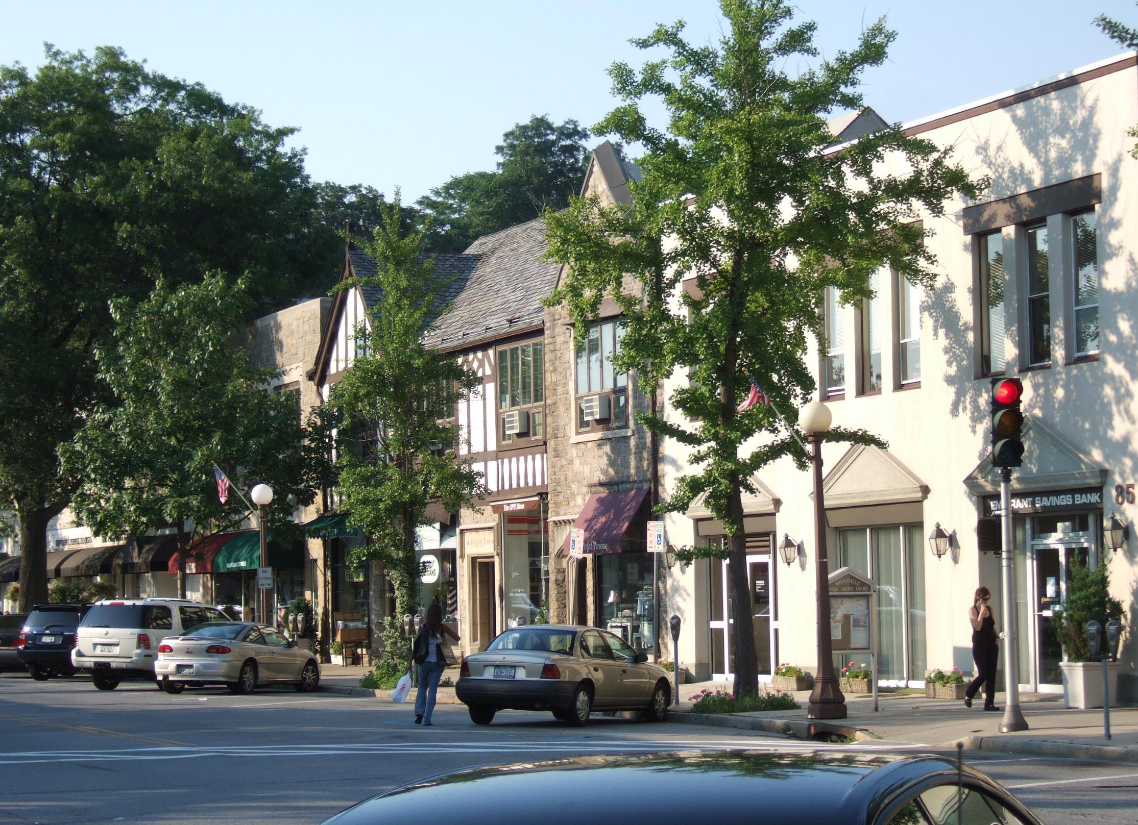 Bronxville Stores Pondfield Road